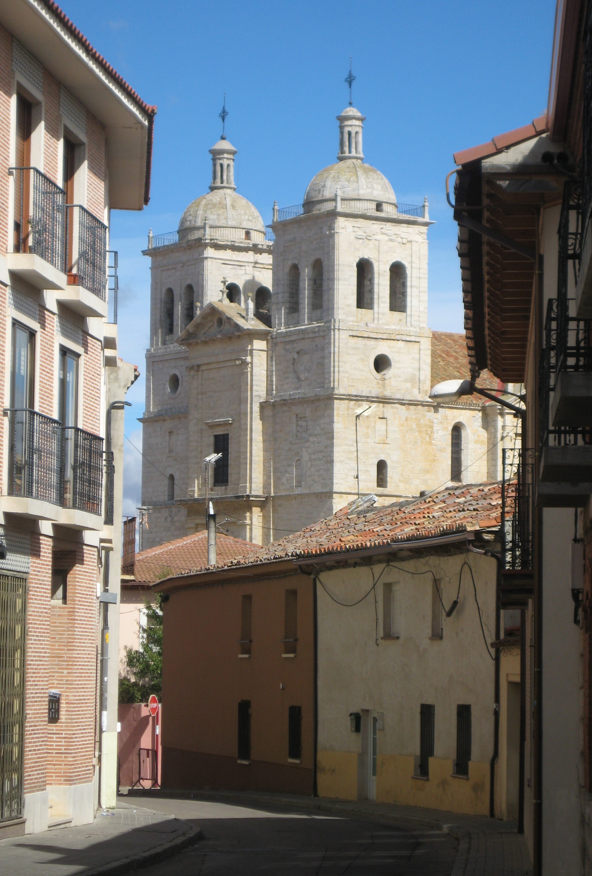 View of a street and of Saint James church in Cigales, Valladolid, Spain.